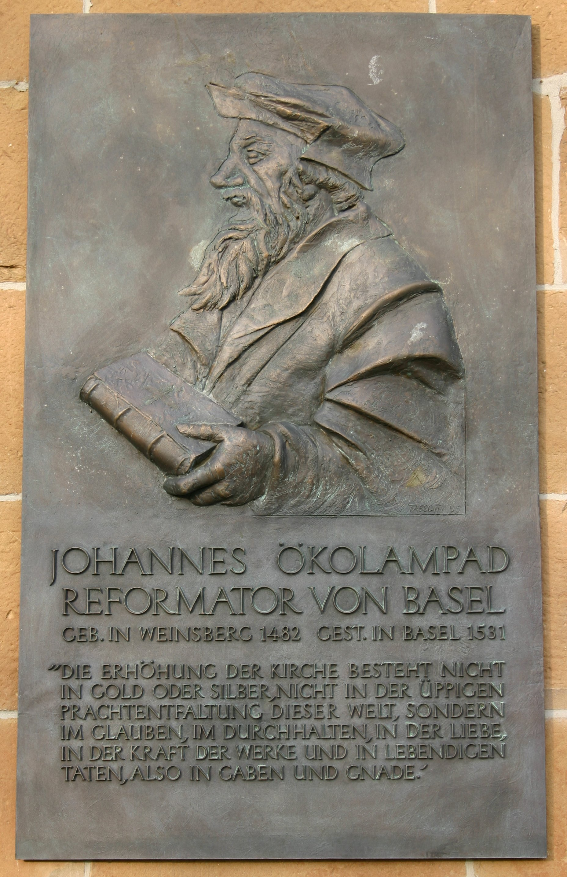 Commemorative plaque for Johannes Oecolampadius by Kurt Tassotti at the Johanneskirche in Weinsberg